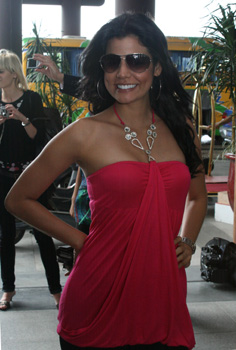 Miss Colombia 2007, Maria Jose Torrenegra, in Miss World 2007, Sanya, China